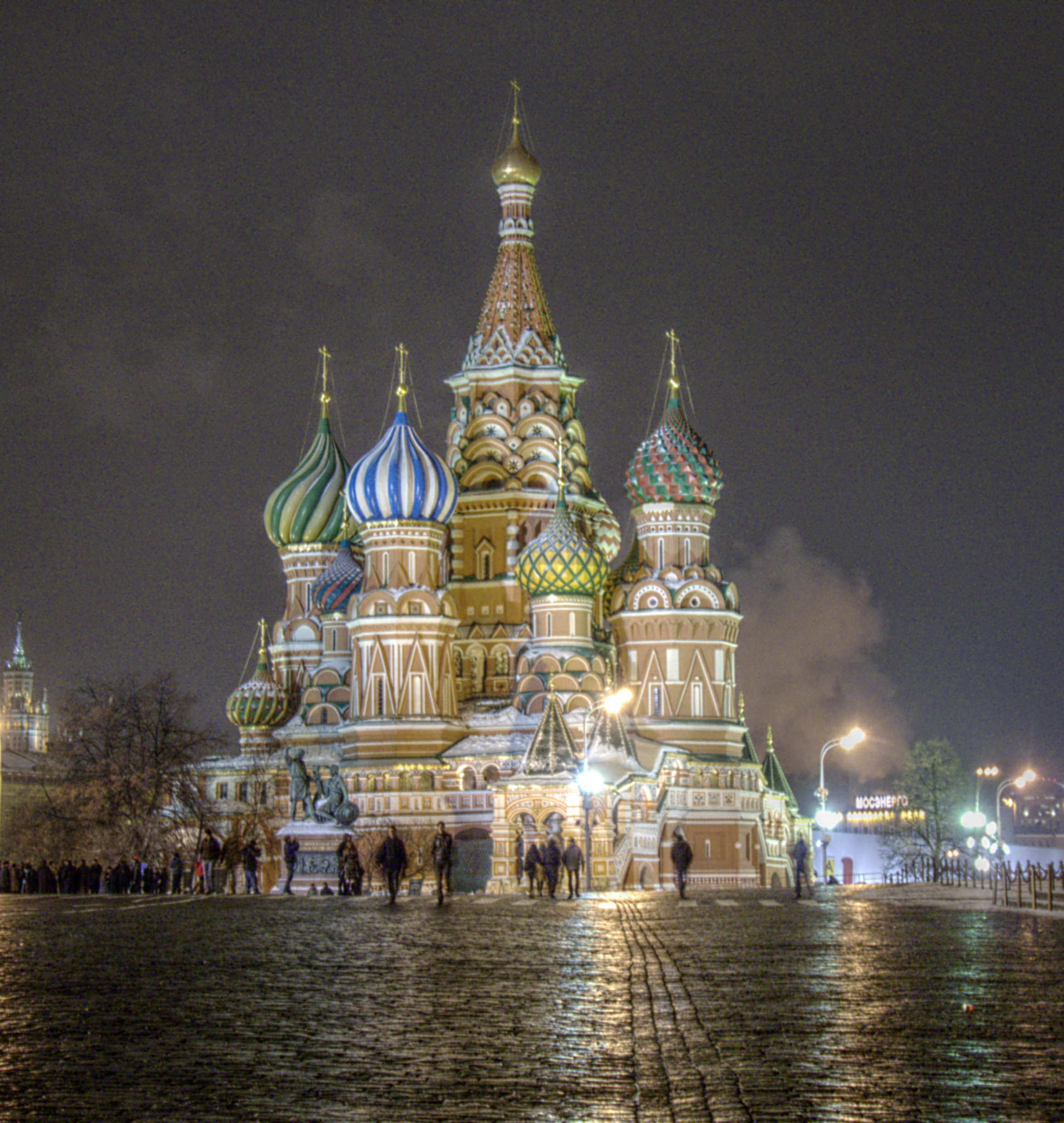 Saint Basil cathedral on the Red Square, Moscow (Russia) I shot in Raw and rendered it as an HDR image using Qtpsfgui, Mantiuk algorithm with the following settings: pregamma: 1 contrast_mapping: 0.05 saturation_factor: 1